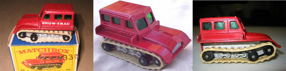 For collectors to succeed in collecting the ultimate prize, they must collect each version or variant of each Matchbox issued. This is Matchbox #35 in 3 variants and is a model of a [Snow Trac] [Snowcat]. The 3 versions include a plain sided model, an embossed sided model, and a model with white decals on the side. For dedicated Matchbox collectors there was also a puzzle collection that featured photos of some selected Matchbox models.